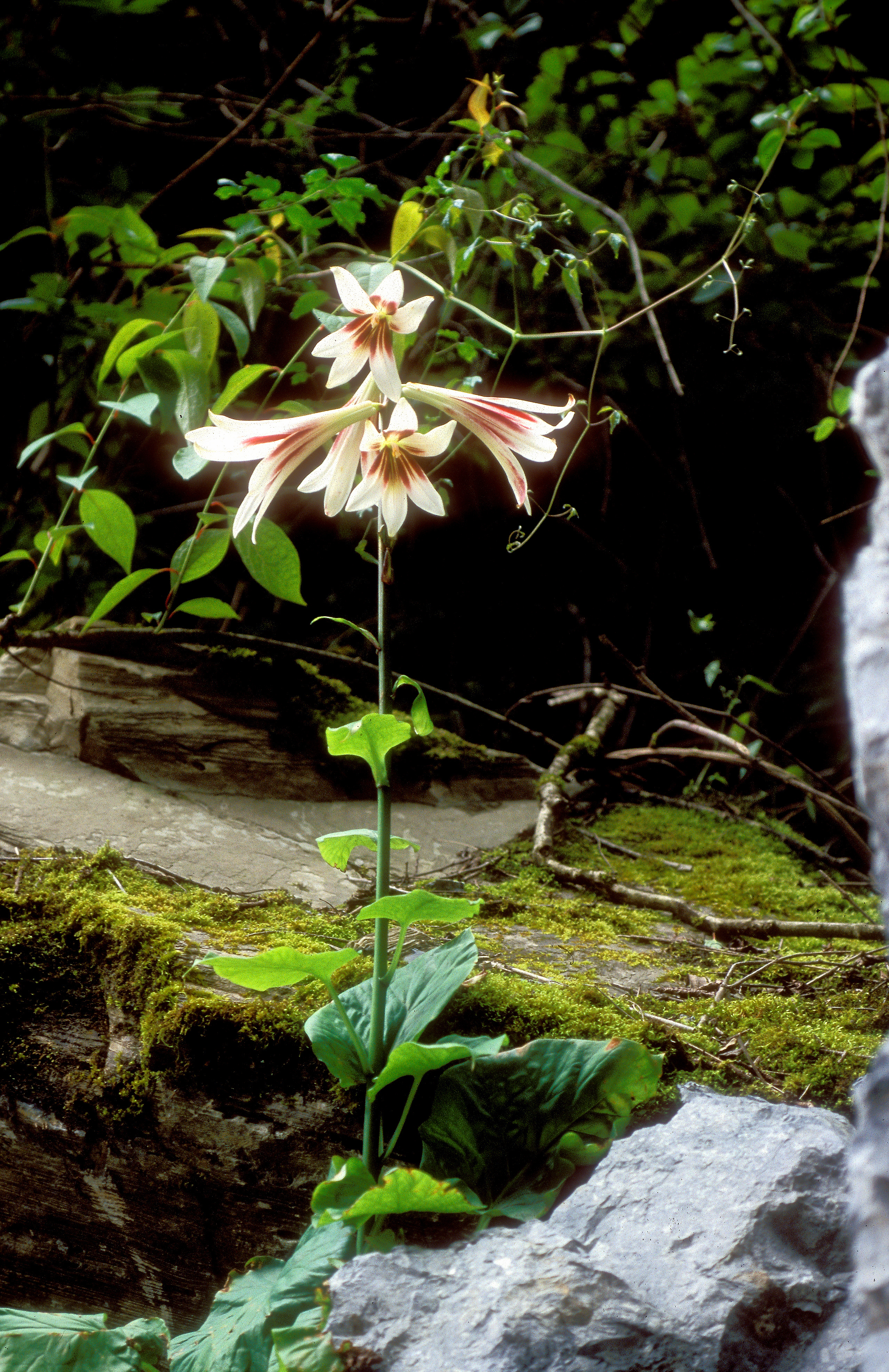 Cardiocrinum giganteum in habitat, Danyun canyon, Sichuan, China